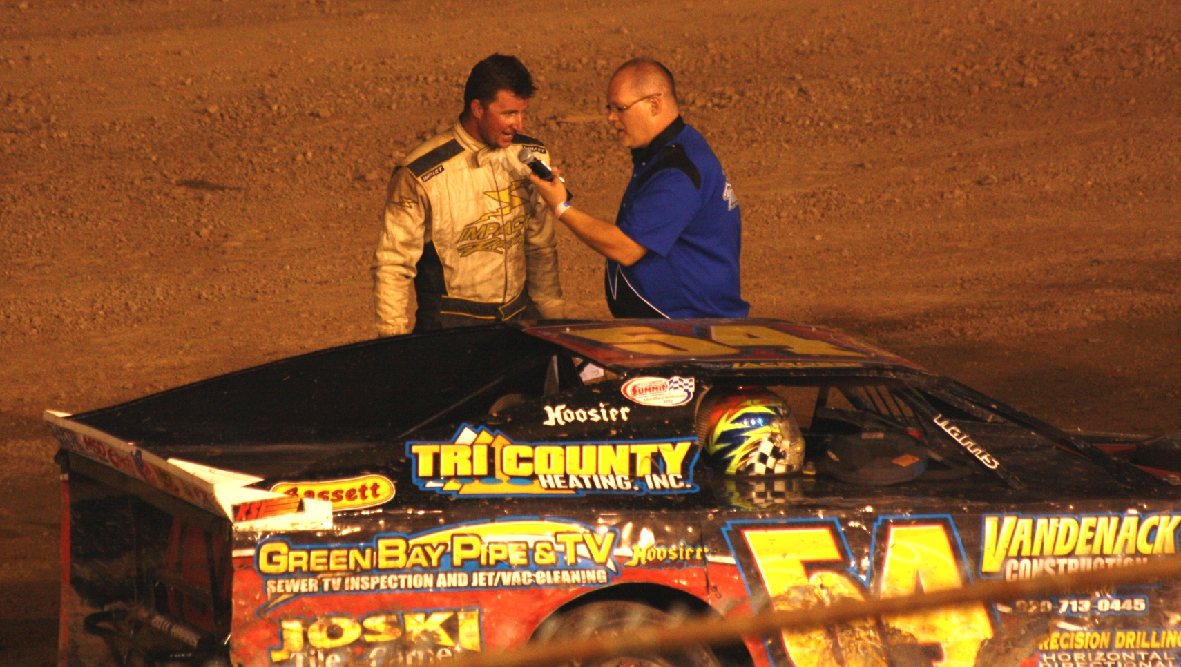 2005 Supernationals winner and 2006 National IMCA Modified national champion Benji LaCrosse being interviewed by Green Bay Press Gazette writer Joe Verdegan after winning the 2012 Badger Modified Tour race at Manitowoc Speedway in Manitowoc, Wisconsin. Verdegan is the promoter and announcer for the Badger Modified Tour.